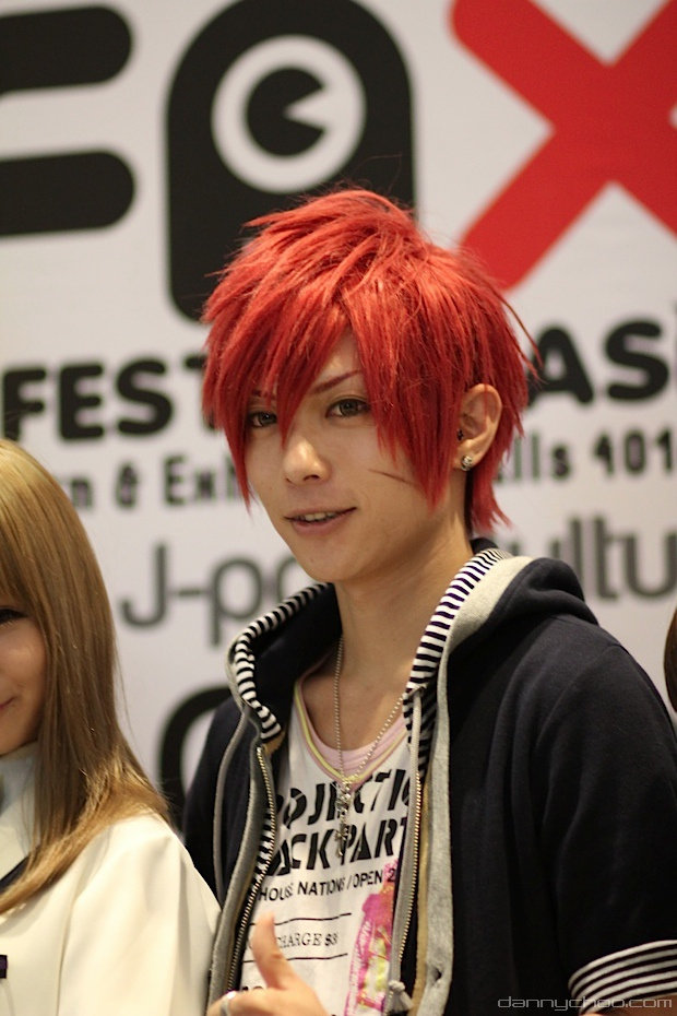 Photo of a guy with a anime cosplay at Anime Festival X in Singapore.